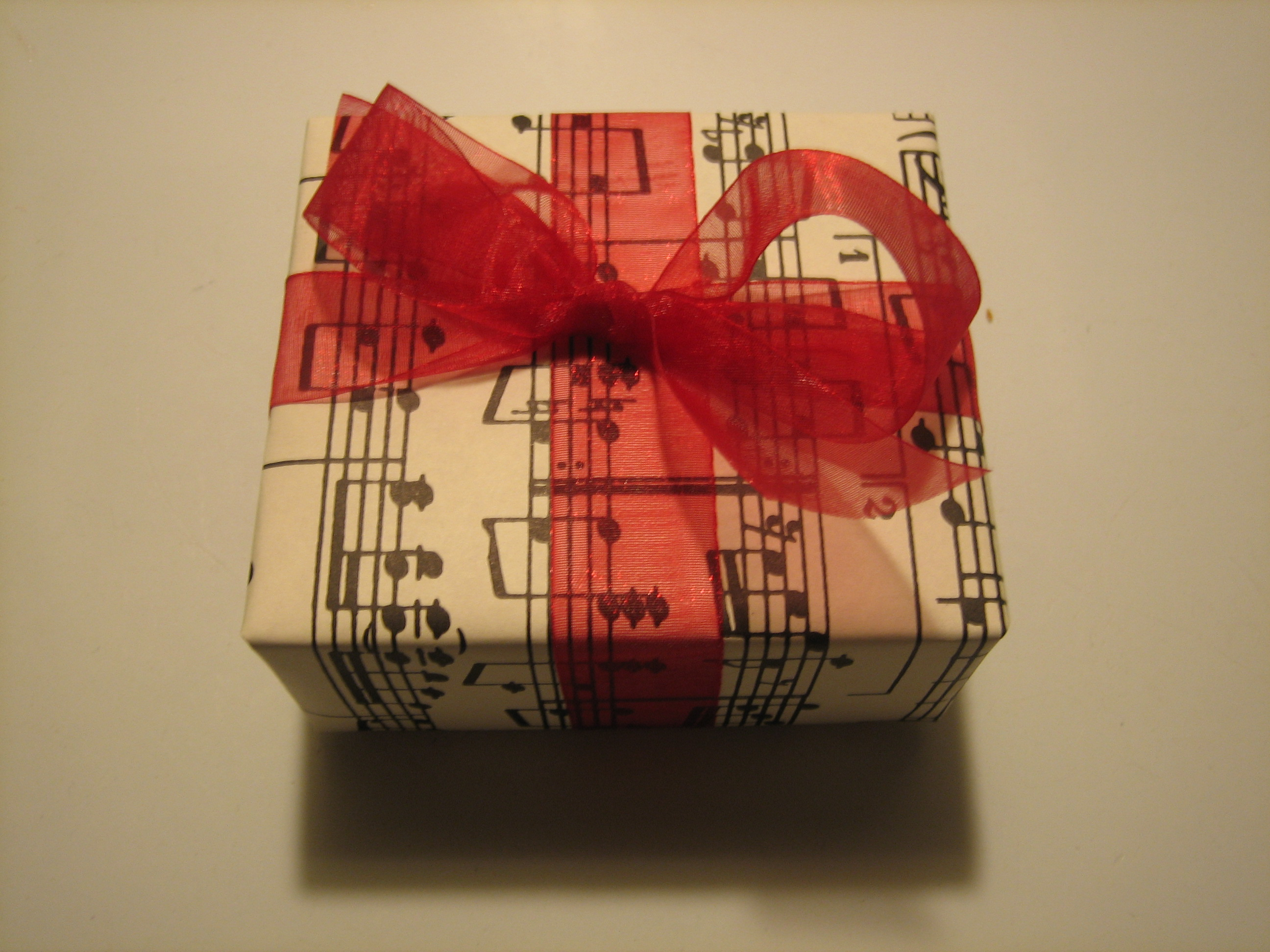 a musical present